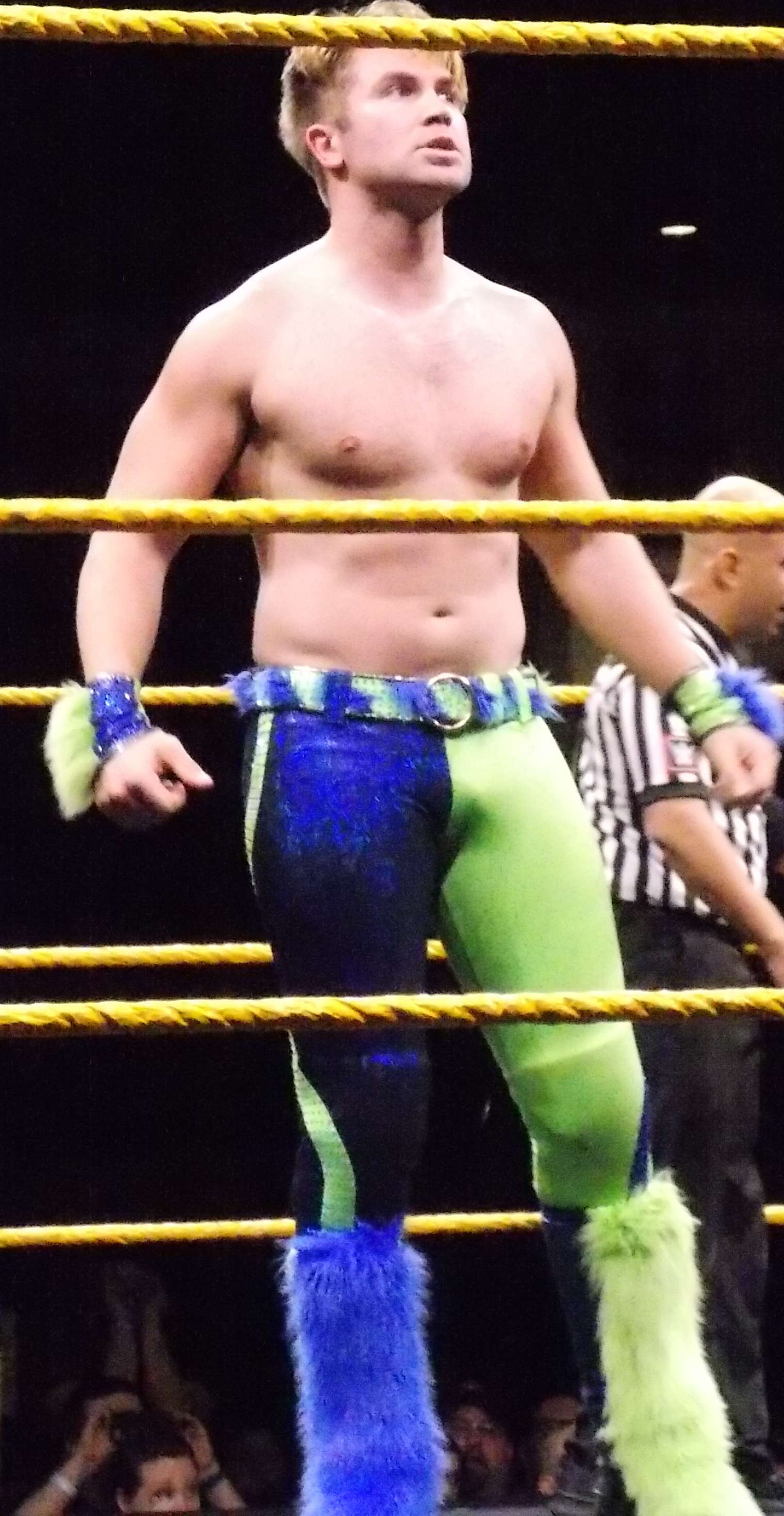 Tyler Breeze vs. NXT North American Champion Velveteen Dream at an NXT Live Event in Omaha, Nebraska, USA on Thursday, April 25, 2019